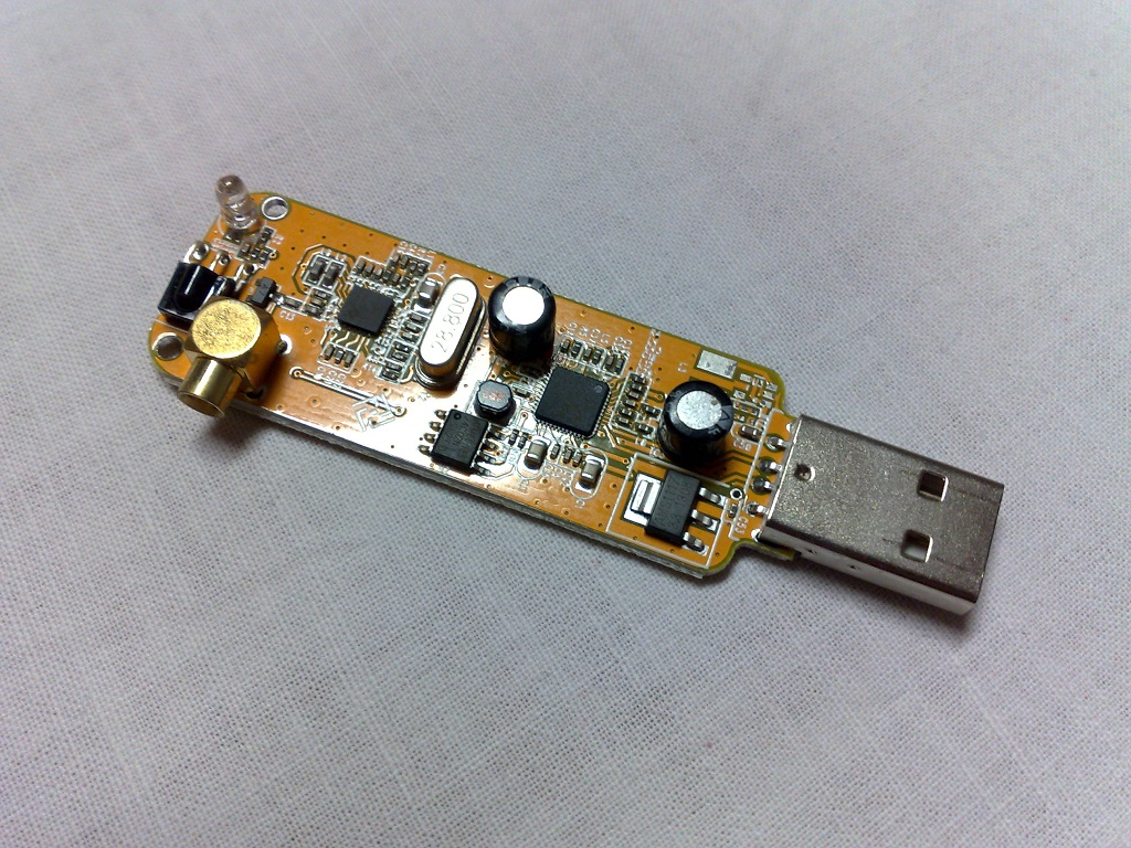 Internals of a low-cost DVB-T USB dongle that uses Realtek RTL2832U (square IC on the right) as the controller and Rafael Micro R820T (square IC on the left) as the tuner. It can be used as a wide-band software-defined radio (SDR) receiver.